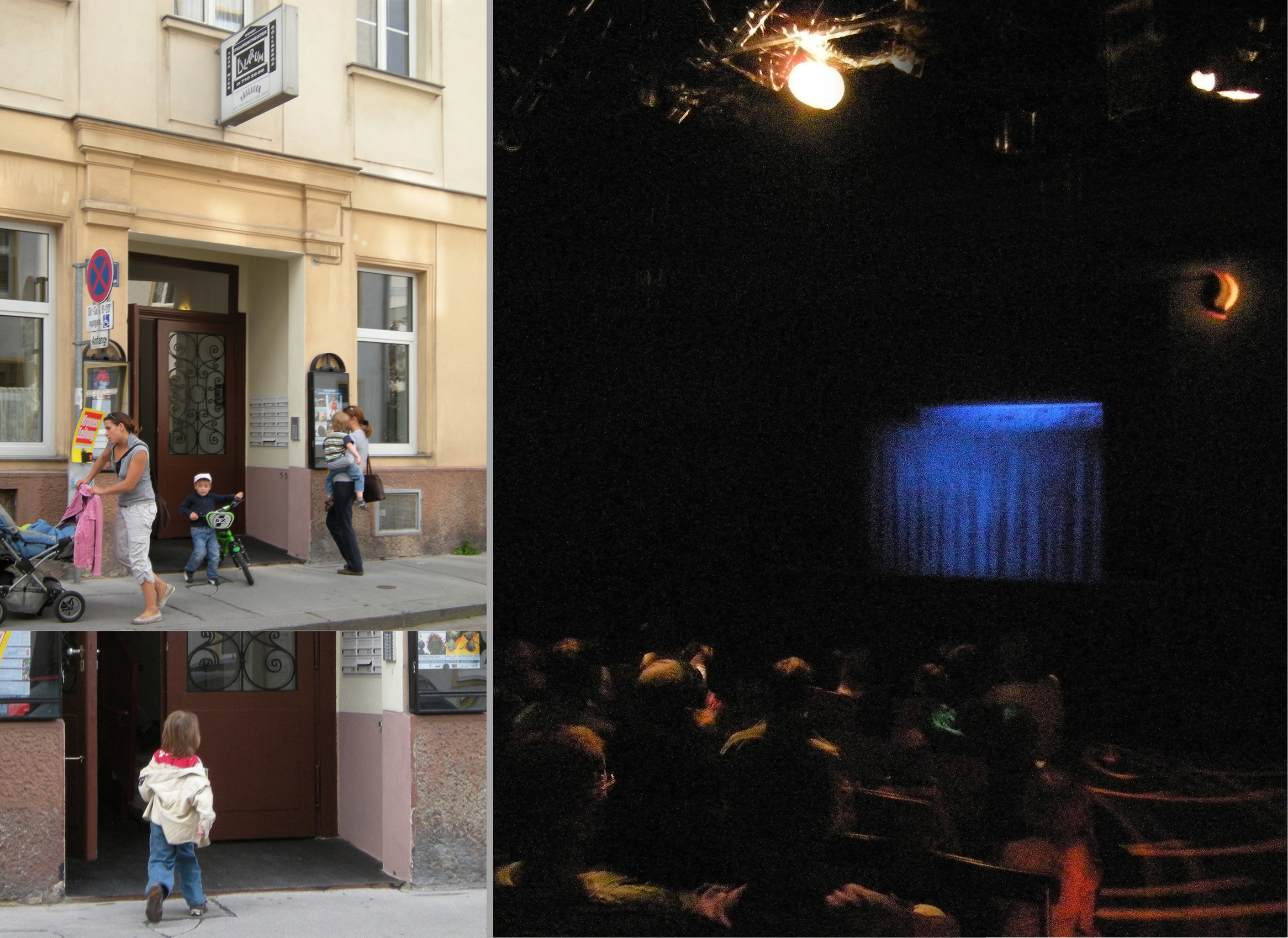 LILARUM theatre for children, Vienna, Austria.